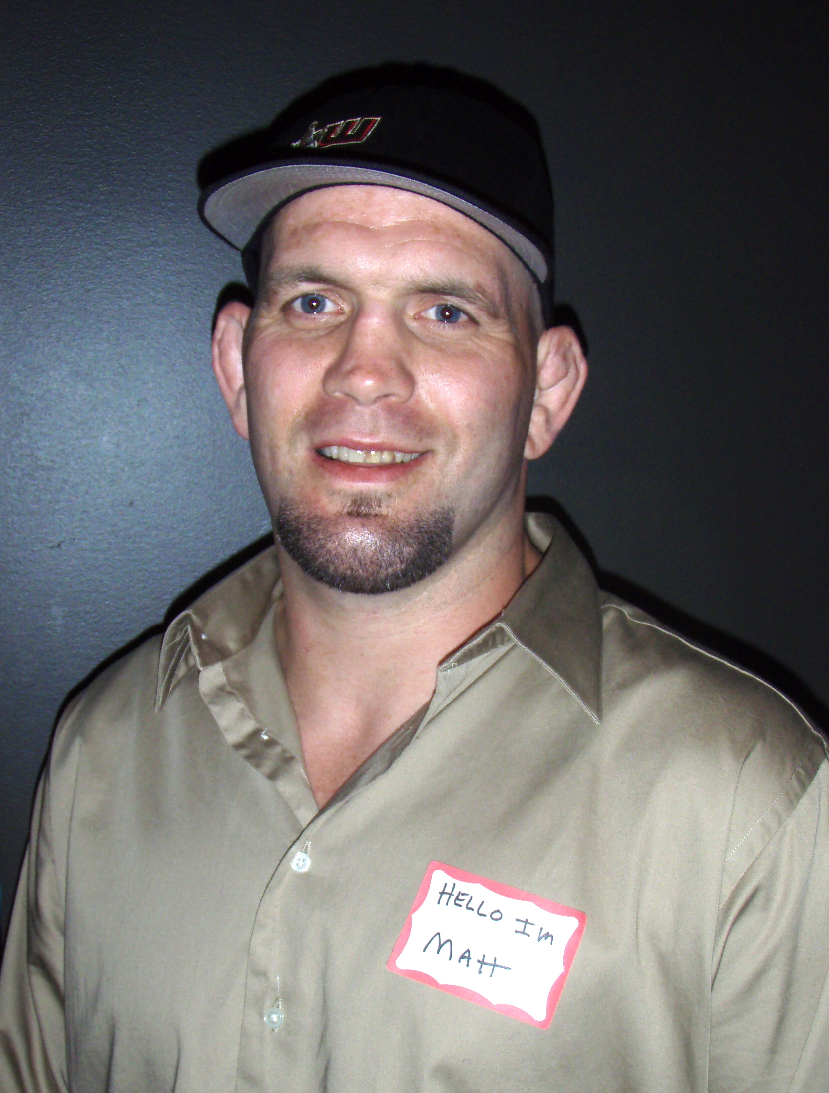 Matt Lindland, Ultimate Fighter and Republican candidate for the Oregon House of Representatives